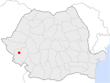 Location of Reșița in Romania.